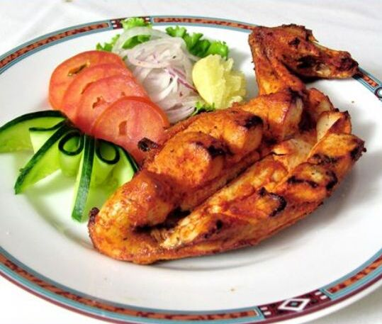 Anwar Mustafa Chicken Tikka Expert